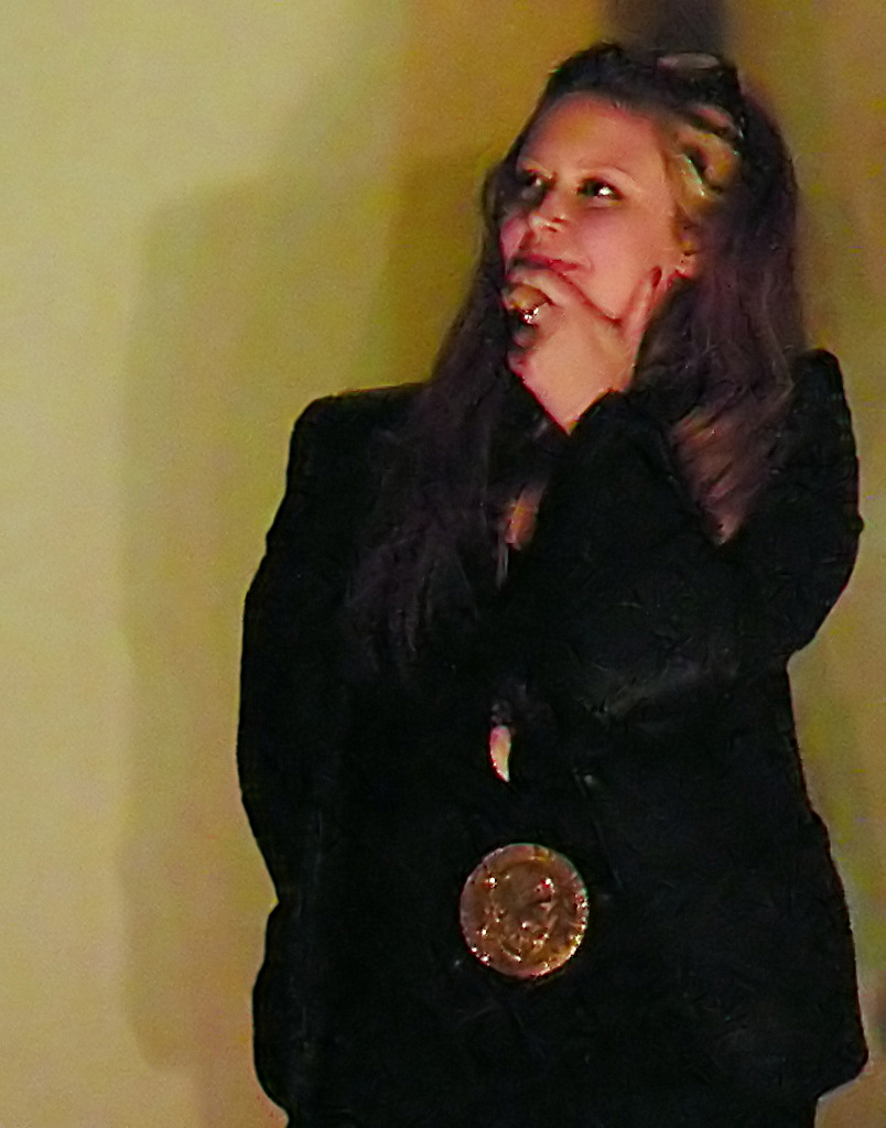 Actress Natasha Lyonne onstage after a showing of the film The Immaculate Conception of Little Dizzle, 2009 Seattle International Film Festival.